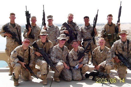 1st Squad, 3rd Platoon, Lima Company, 3rd Battalion, 25th Marine Regiment (2005). Front row, from left: Michael Cifuentes, Christopher Dyer, Justin Hoffman, Aaron Reed, Edward August Shroeder, Eric Bernholtz. Back row, from left: Grant Fraser, Nicholas Bloem, Timothy Bell,Brett Wightman, Travis Williams, David Kreuter.